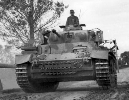 Title: Russland, Beobachtungspanzer III Extra information: Rußland.- Beobachtungspanzer III in Fahrt auf unbefestigter Straße, Soldat im Panzerturm; PK 670 Factual corrections and alternative descriptions are encouraged separately from the original description. Additionally errors can be reported at this page to inform the Bundesarchiv. Original historic description